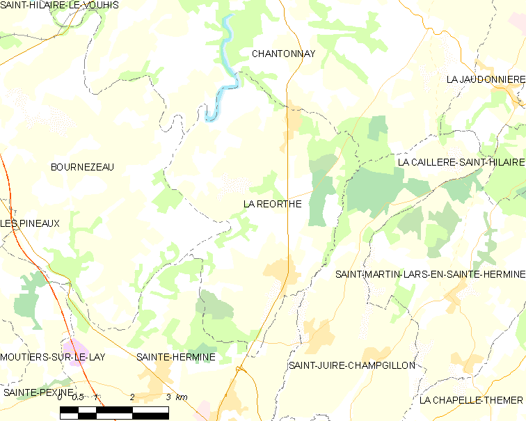 Map of French municipality La Réorthe